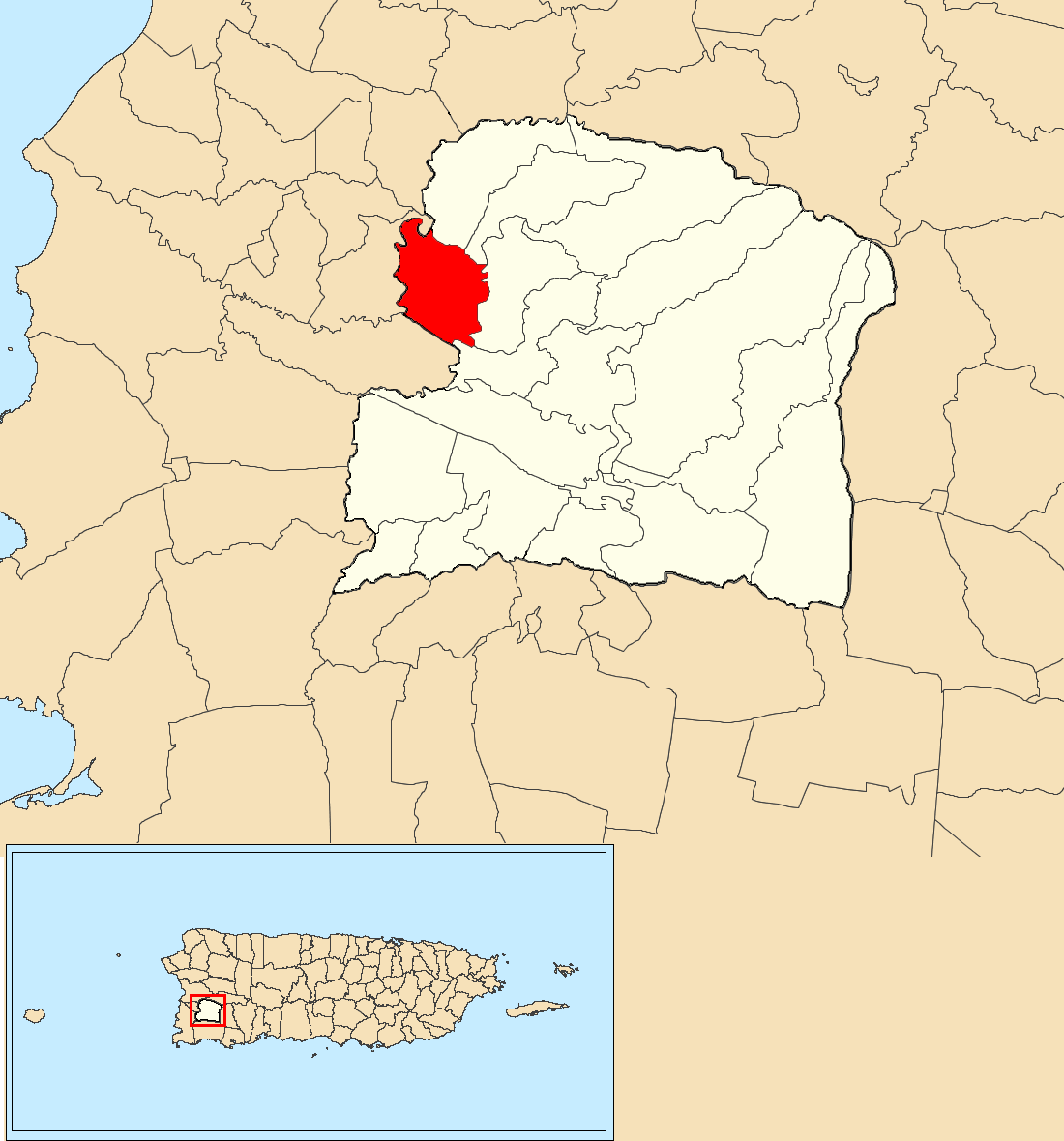 Duey Bajo, San Germán, Puerto Rico locator map